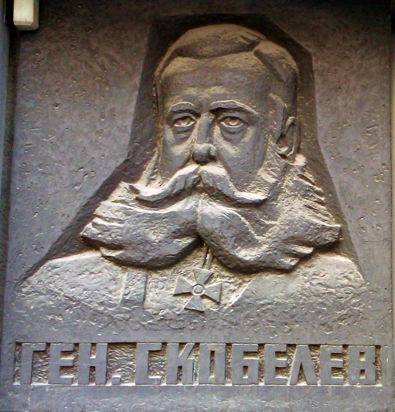 The memorial plate of the Russian general Mikhail Dmitrievich Skobelev at Skobelev Blvd. in Sofia.